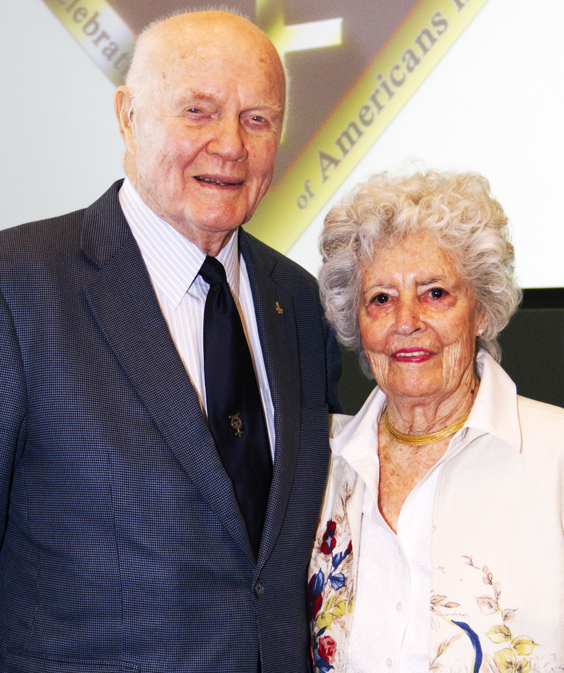 Feb 17, 2012 -- Mercury astronaut John Glenn and his wife, Annie, pose during a luncheon Feb. 17, 2012, celebrating 50 years of Americans in orbit, an era which began with Glenn's Mercury mission MA-6, on Feb. 20, 1962. Glenn's launch aboard an Atlas rocket took with it the hopes of an entire nation and ushered in a new era of space travel that eventually led to Americans walking on the moon by the end of the 1960s. Glenn soon was followed into orbit by Scott Carpenter, Walter Schirra and Gordon Cooper. Their fellow Mercury astronauts Alan Shepard and Virgil "Gus" Grissom flew earlier suborbital flights. Deke Slayton, a member of NASA's original Mercury 7 astronauts, was grounded by a medical condition until the Apollo-Soyuz Test Project in 1975. Photo credit: NASA/Kim Shiflett NASA image use policy.